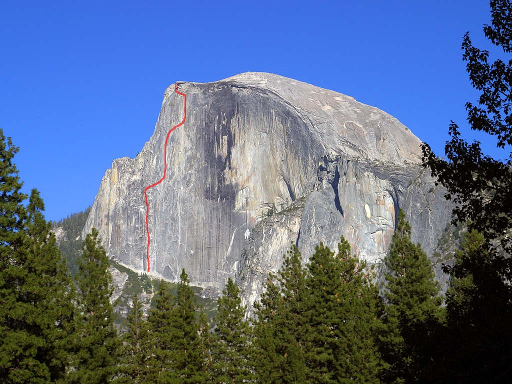 Modification of Original image is a public domain photo from .